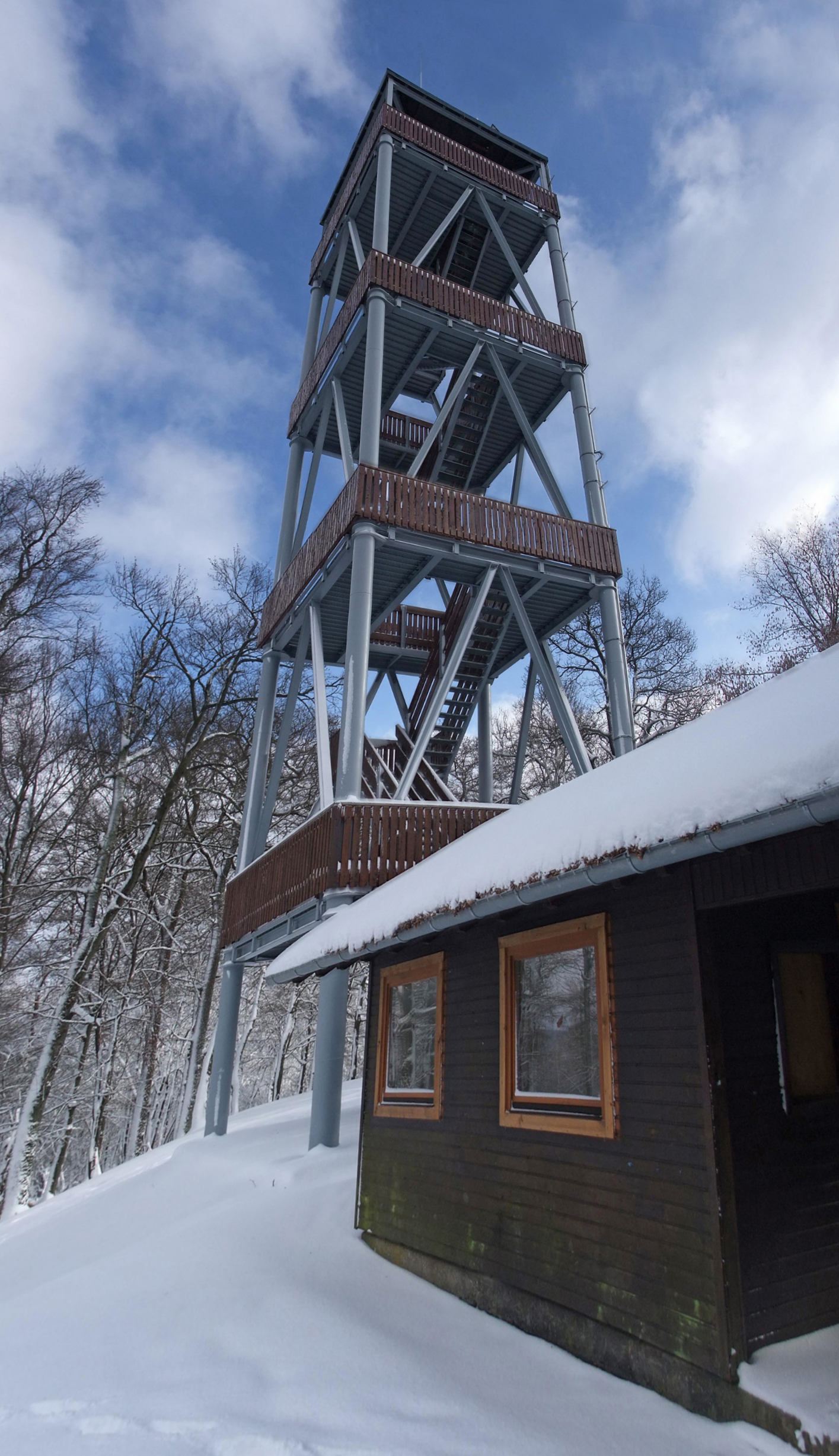 look-out tower "Rimbergturm" near Caldern, Hesse, Germany